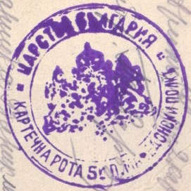 11th Division 5th_Regiment's_Machine_Gun_Company's Seal